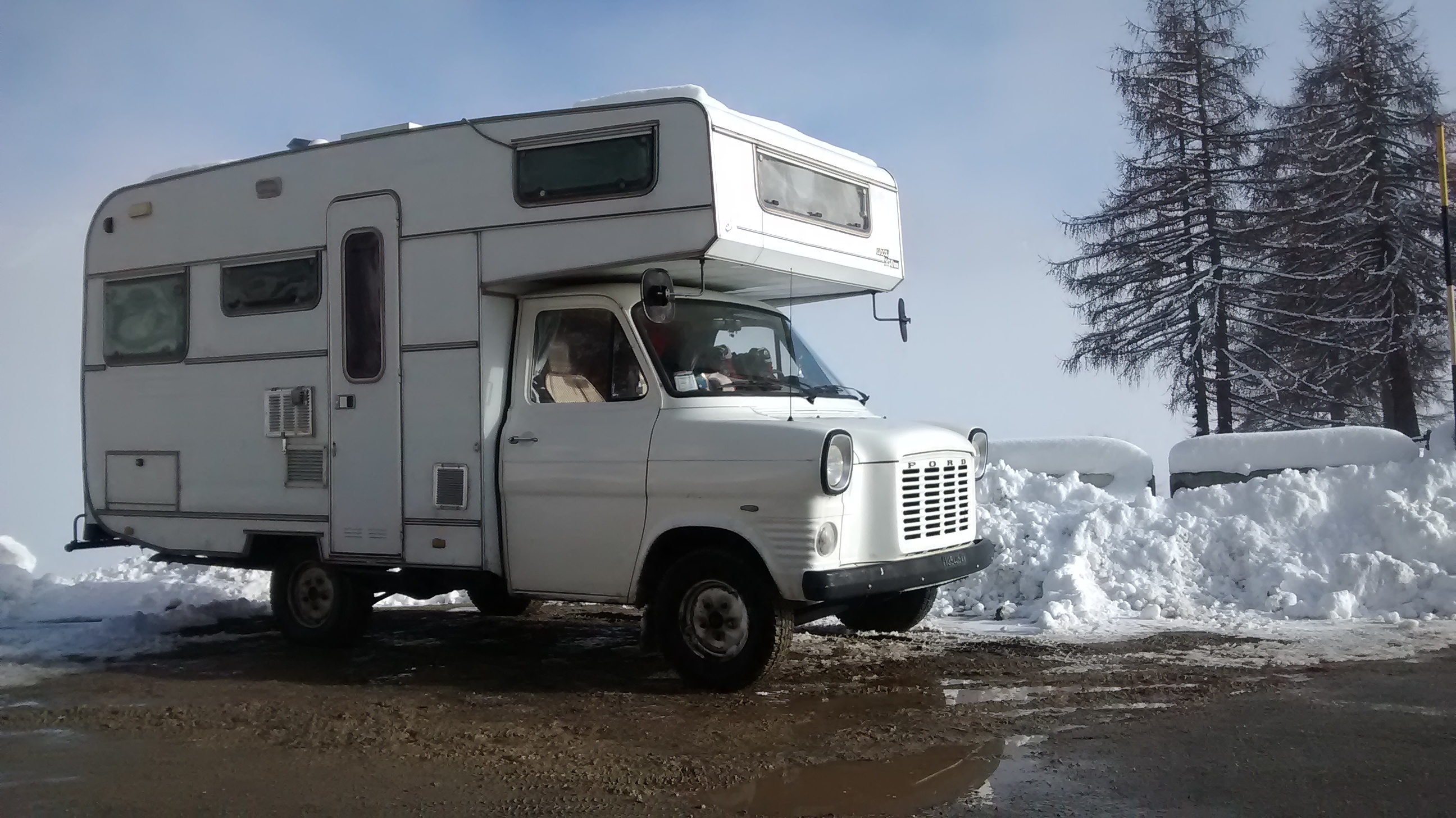 Ford Motorhomes